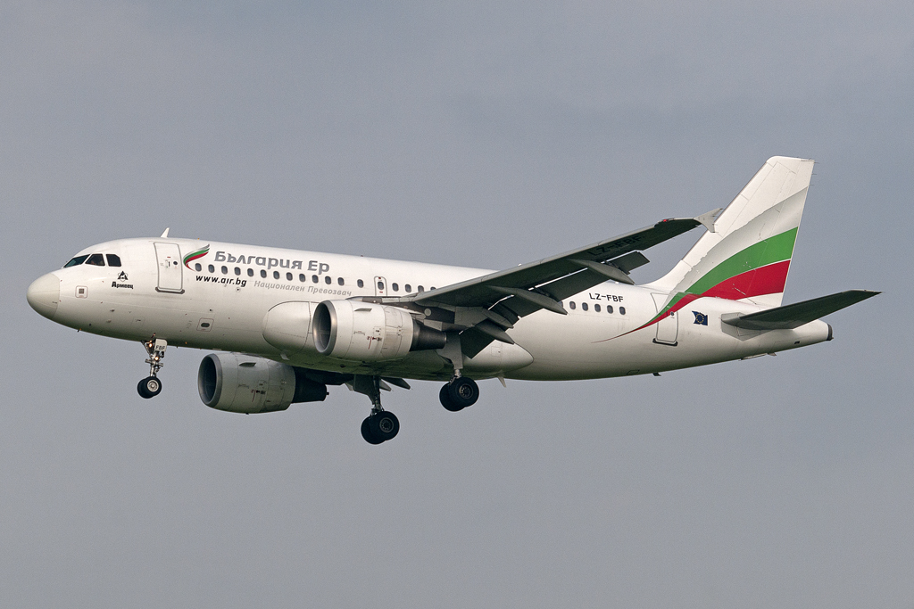 Flight FB0461 from Sofia. Airbus A319-111 Amsterdam - schiphol airport (AMS / EHAM) 03-09-2011